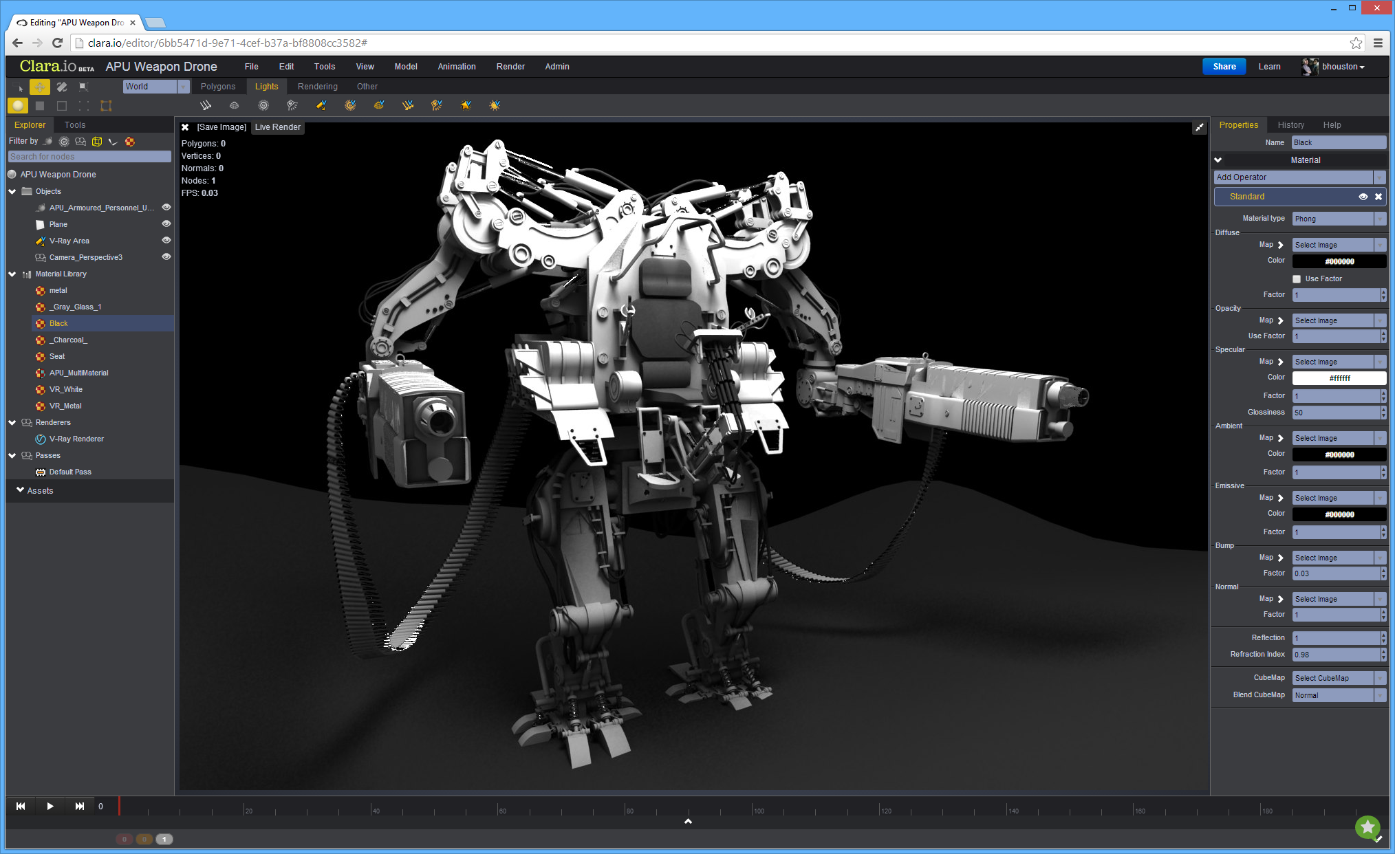 A screenshot of the application with a V-Ray rendering of a APU Drone 3D model.